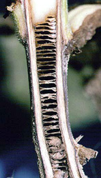 This image was taken with permission from the APS website. The picture portrays the segmenting pith symptom of Black Shank on tobacco.